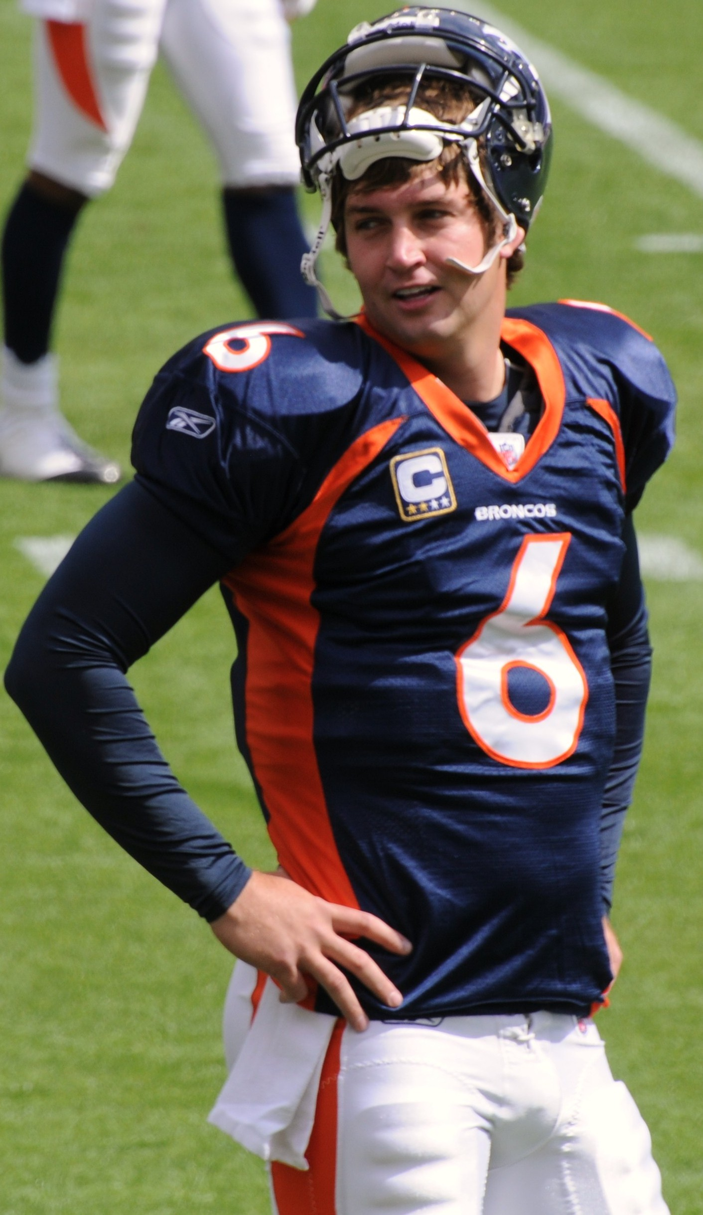 own work, GFDL license